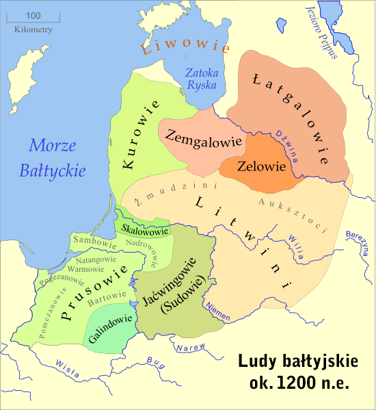 A map of the Baltic Tribes, about 1200 CE. The Eastern Balts are shown in brown hues while the Western Balts are shown in green. The boundaries are approximate.